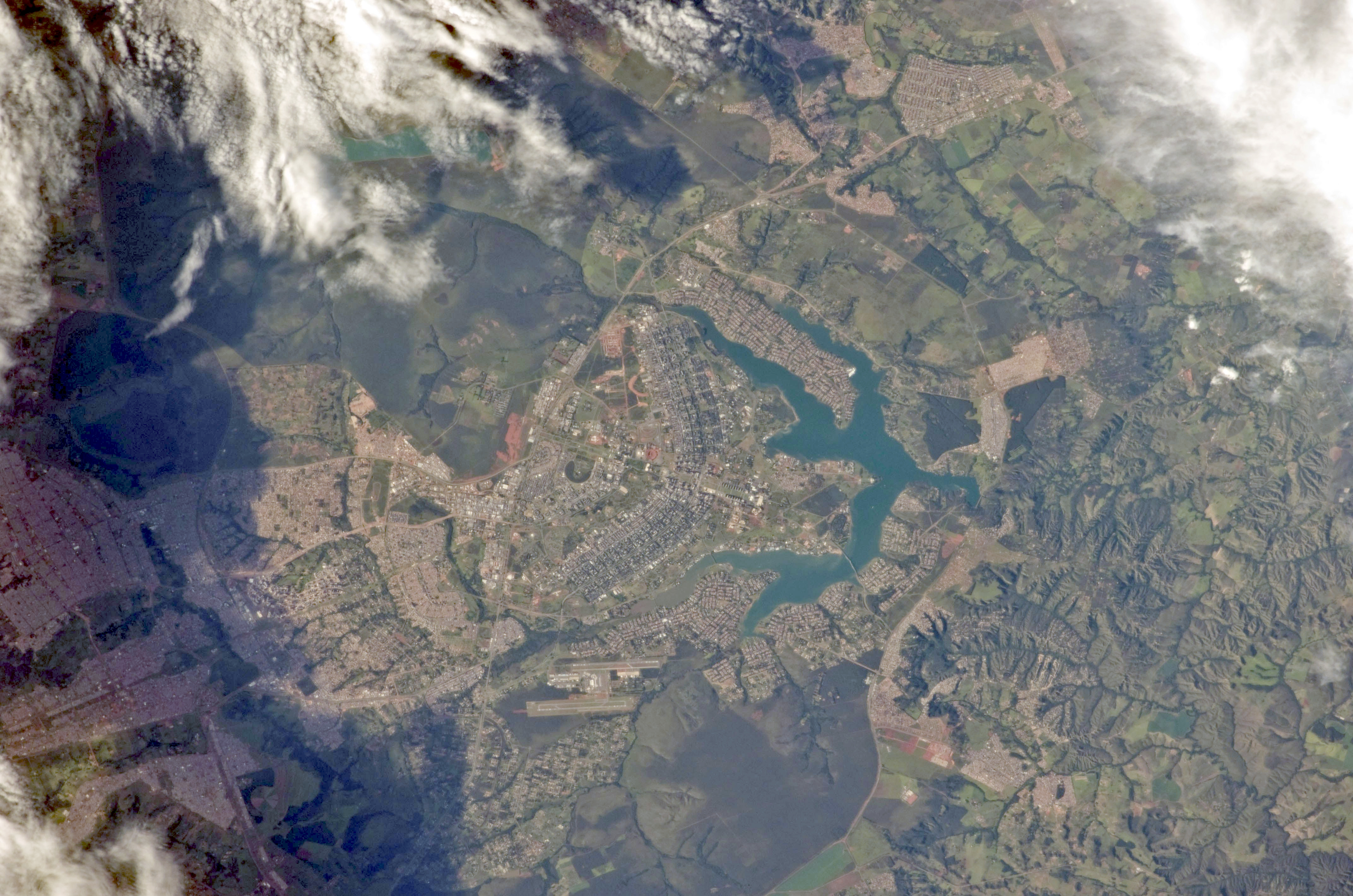 Astronaut Photo of Federal District, Brazil taken from the International Space Station (ISS) during Expedition 26 on January 22, 2011.